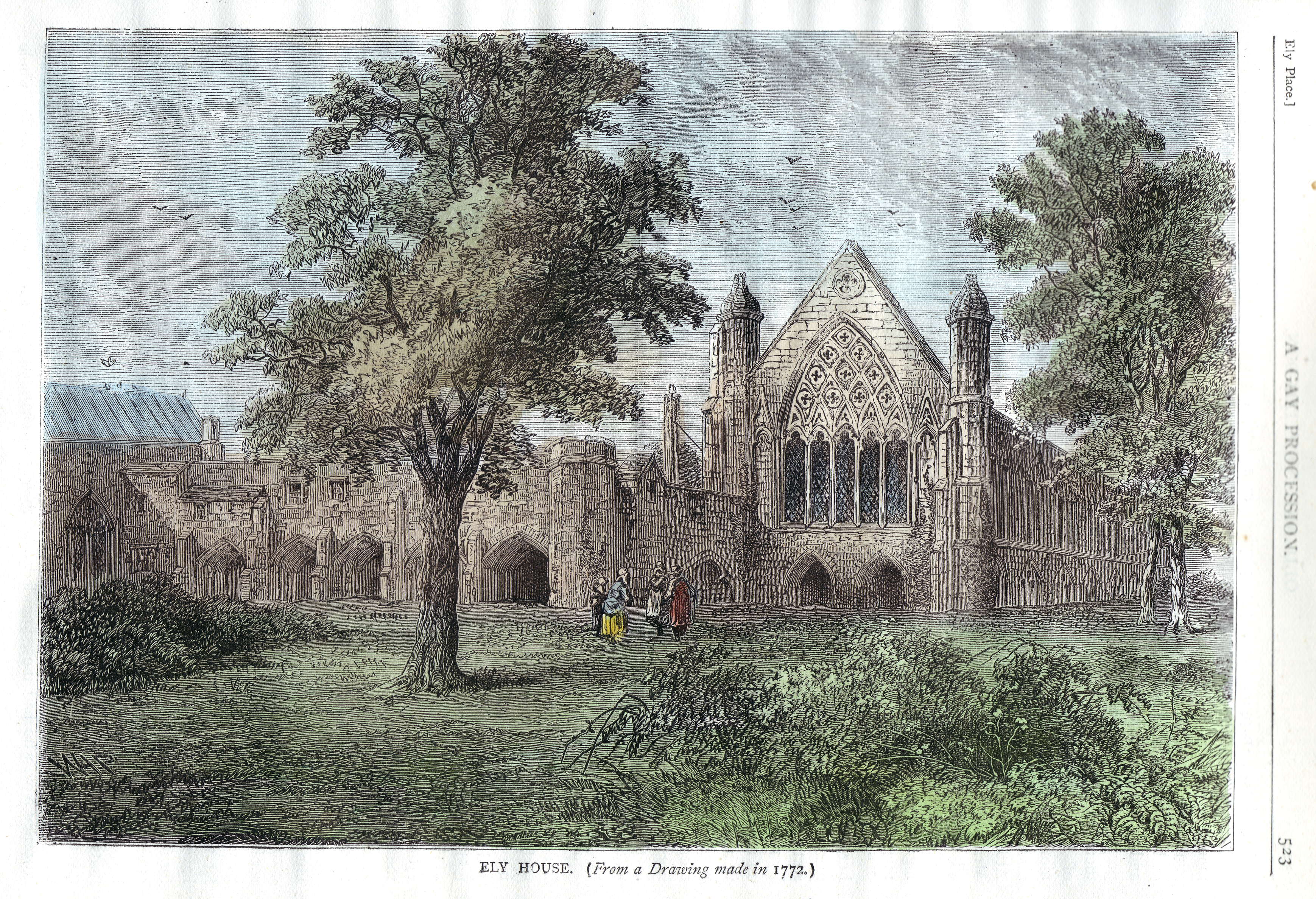 A wood engraving of Ely House in London, including St. Etheldreda's chapel, the only part of the building still standing. Originally produced by William Henry Prior for the part-work "Old and New London" (1873-1878), based on a 1772 drawing.